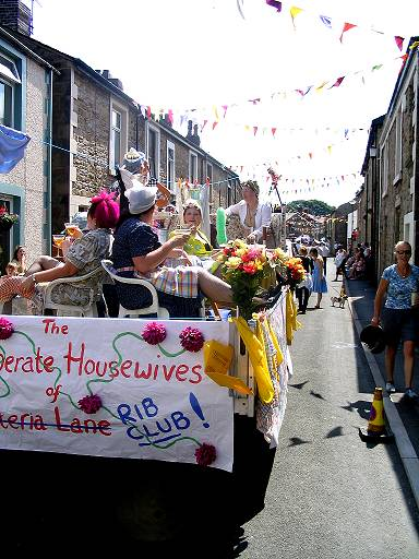 Ribchester Field Day 2006 looking down Water Street.